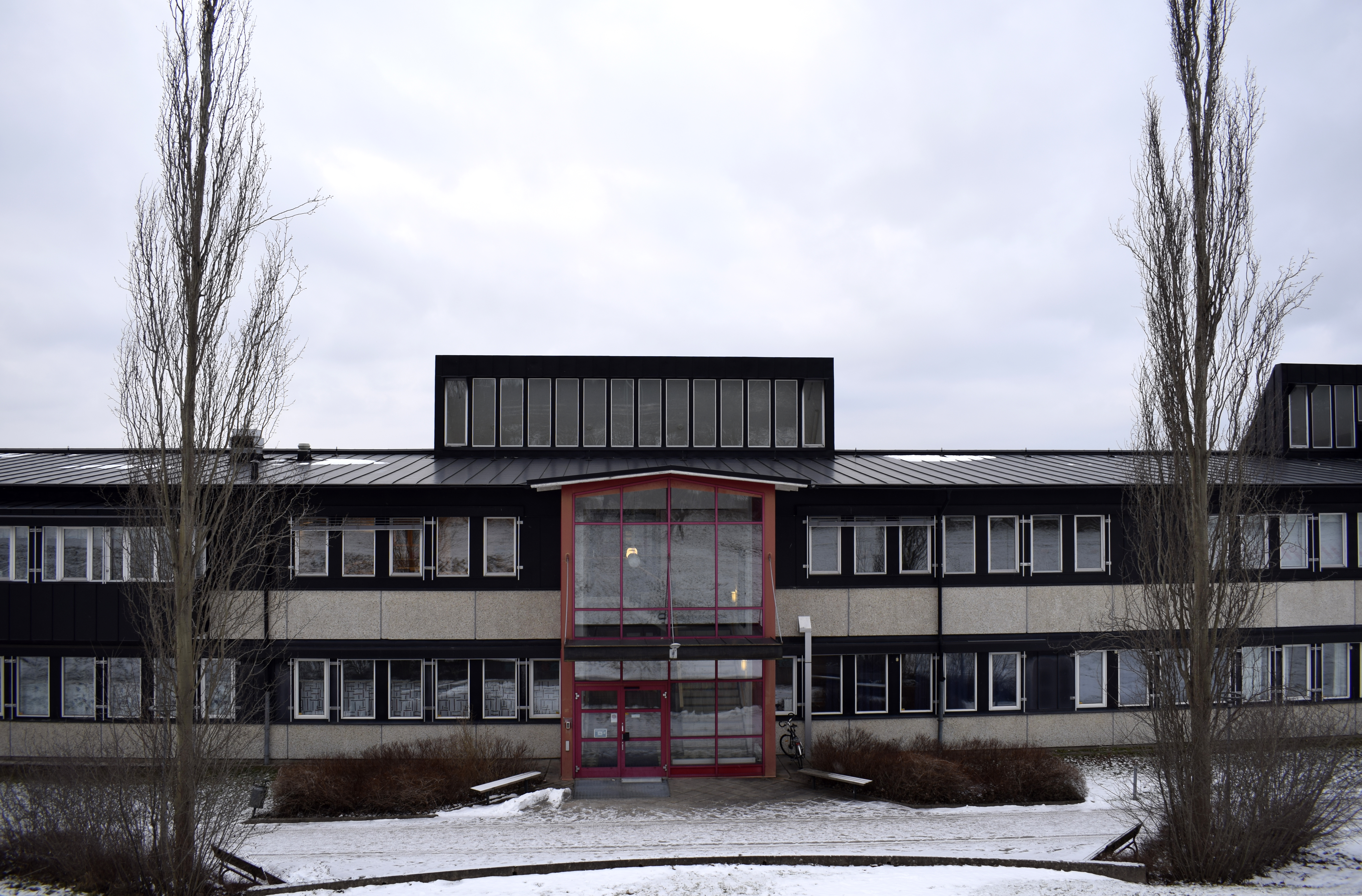 Upper secondary school Tingsholmsgymnasiet.